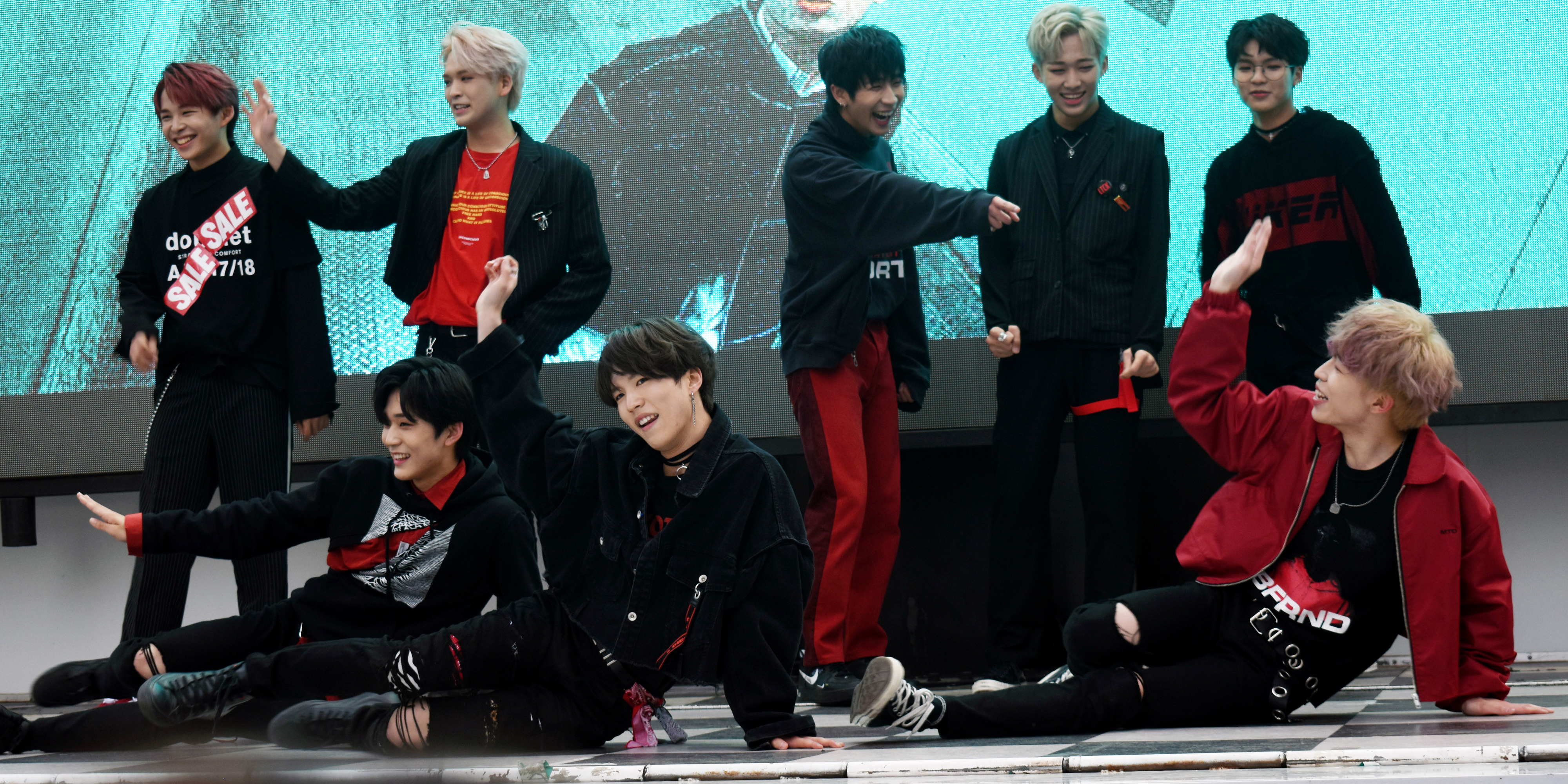 D-Crunch busking in Myeongdong on November 18, 2018